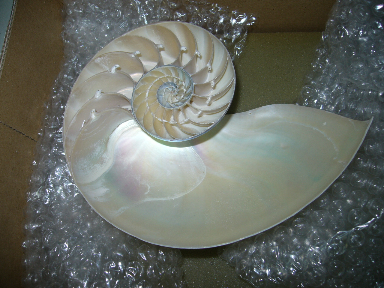 Nautilus sp. shell in a laboratory of practices of the Faculty of Sciences of the University of Corunna.